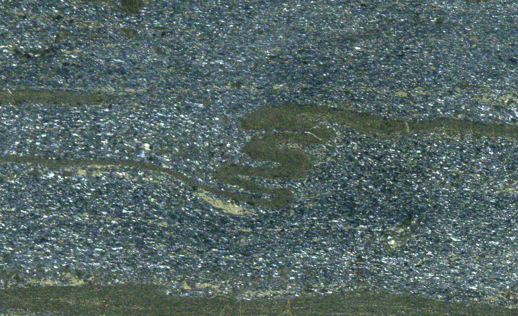 Banded massive sulfide (SEDEX silver-lead-zinc ore) (field of view: ~2.5 cm across) from the Sullivan Deposit with contorted bedding from soft-sediment slumping. Very dark gray = argentiferous galena (Pb,Ag)S Dark grayish brown bands = sphalerite (ZnS) Dull brassy wisps = pyrrhotite (Fe1-xS) British Columbia’s Sullivan Mine targeted a massive sulfide deposit consisting of silver, zinc, and lead ore minerals. The ore rocks have interesting contorted banding. This is an unusual example of a sulfide deposit having a sedimentary origin. The Sullivan Deposit is a SEDEX deposit, which stands for sedimentary exhalative deposit. It formed by seafloor deposition of silver, zinc, and lead sulfide mineral grains “exhaled” from underwater vents somewhat akin to black smokers. At the Sullivan Deposit, SEDEX deposition occurred in the collapsed crater of a mud volcano formed by emplacement of regional gabbroic sills into wet, unconsolidated, seafloor sediments that were filling a continental rift basin - a bit of a complex geologic origin. The folded and contorted bedding seen in the sulfide layers formed by soft-sediment slumping. Stratigraphy & Age: lower member-middle member boundary of the Aldridge Formation (a turbidite-sill succession), Mesoproterozoic, 1470 Ma. Locality: Sullivan Mine, between Mark Creek and Sullivan Hills, just north-northwest of Kimberley, East Kootenay District, Belt-Purcell Intracratonic Rift, southeastern British Columbia, southwestern Canada (49° 42’ 36” North, 115° 59’ 58” West). Info. mostly synthesized from: Lydon, J.W. 2004. Genetic models for Sullivan and other SEDEX deposits. pp. 149-190 in Sediment-Hosted Lead-Zinc Sulphide Deposits, Attributes and Models of Some Major Deposits in India, Australia and Canada. Narosa Publishing House. New Delhi.